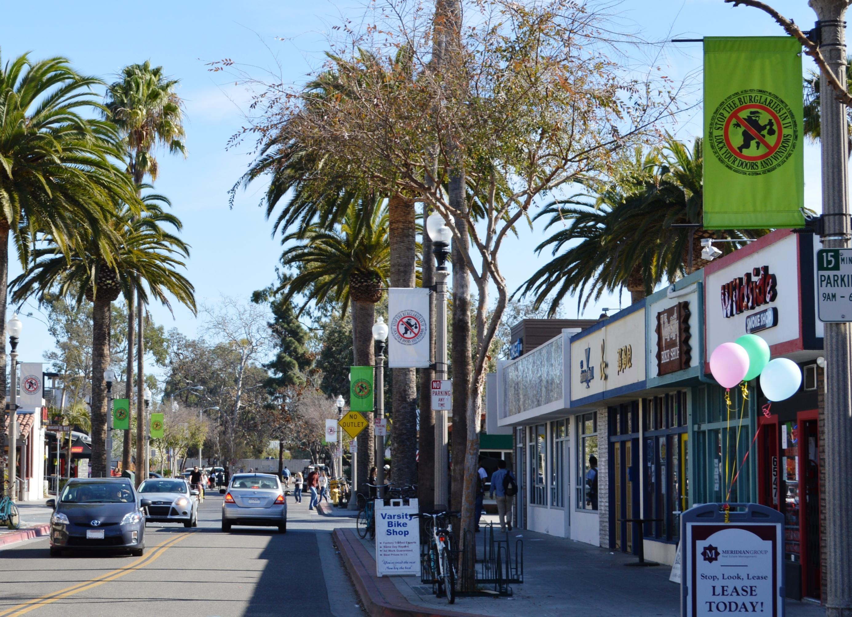 Isla Vista, California, U.S.A. See this article regarding the "Stop Burglaries in IV" campaign.